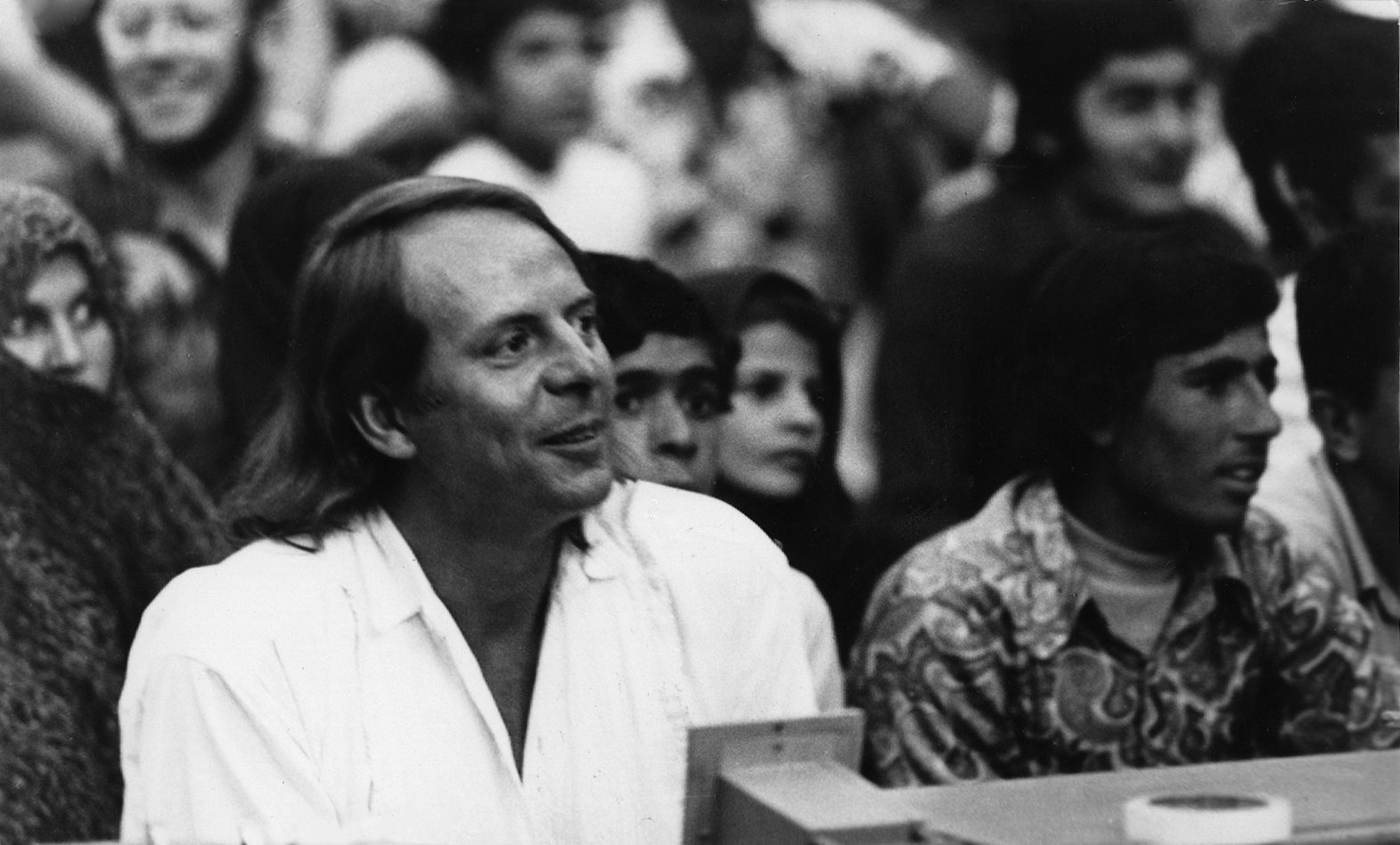 Shiraz Arts Festival, Karlheinz Stockhausen. Seraye Moshir, Shiraz, 1. Sept. 1972.